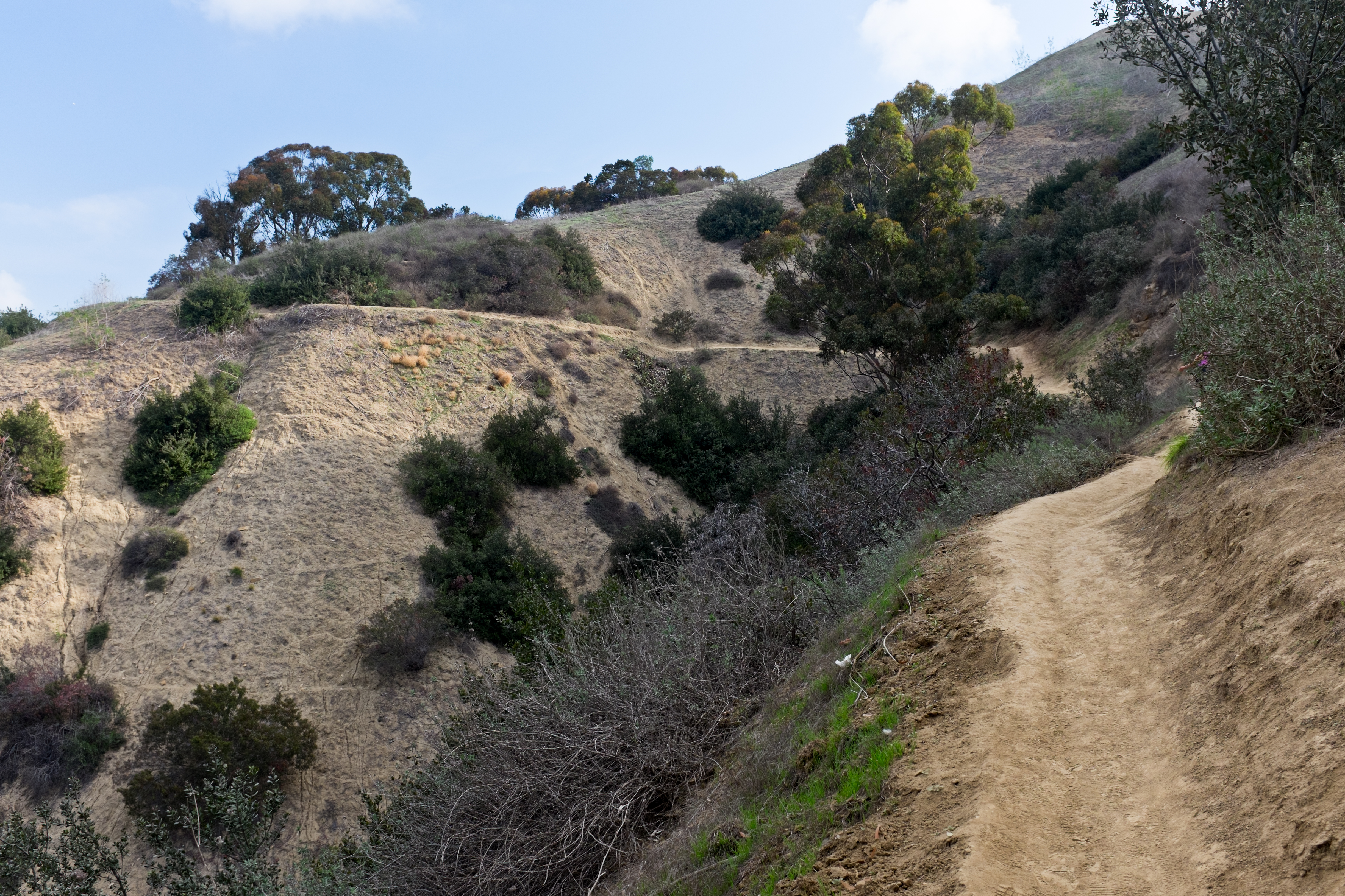 Mariposa Trail in Hellman Wilderness Park — in the Puente Hills near Whittier, eastern Los Angeles County, California. California chaparral and woodlands habitat.